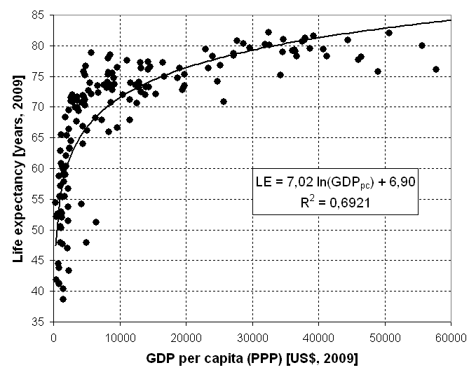 Life expectancy vs. GDP (PPP) per capita, accordig to World Bank, 2009 (sample: 162 coutries) Sources: GDP per capita (PPP), (World Bank, 2009) Life expancy (CIA factbook, 2009)